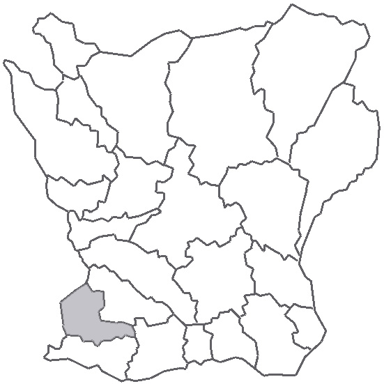 Map describing the location of Oxie Hundred in the province of Skåne, Sweden.